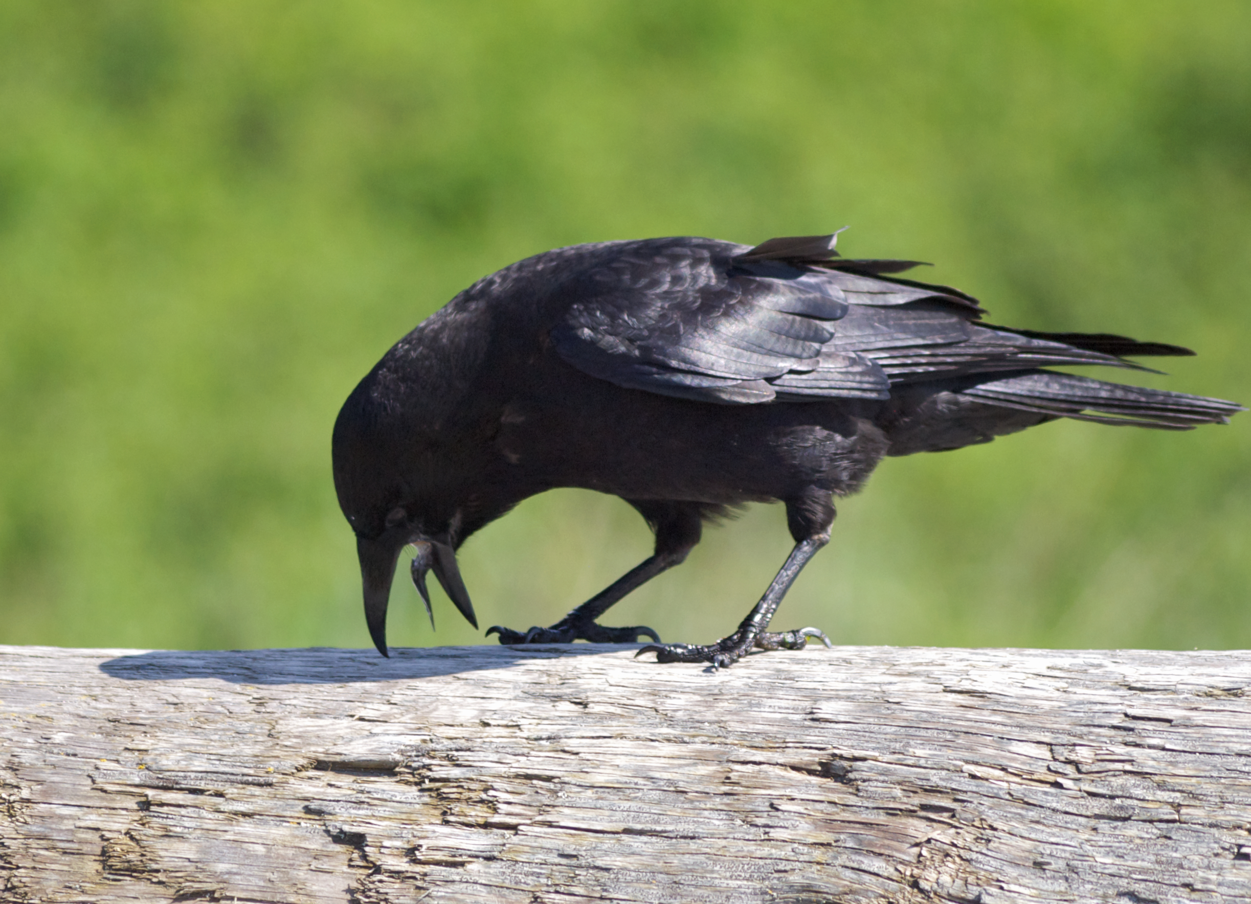 An American Crow at Carkeek Park, Seattle, Washington, USA.